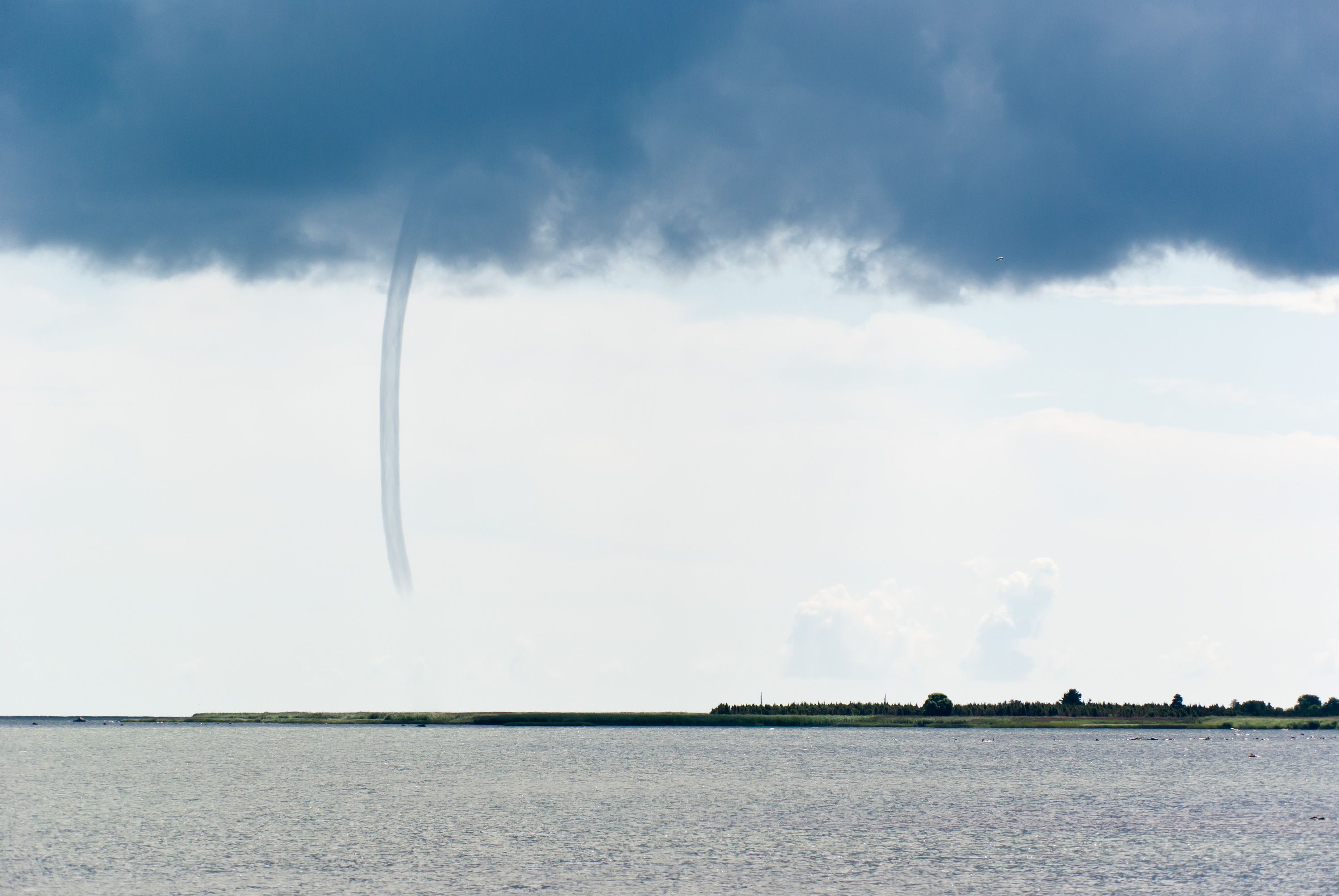 Waterspout in the port of Kuivastu's harbour in Estonia